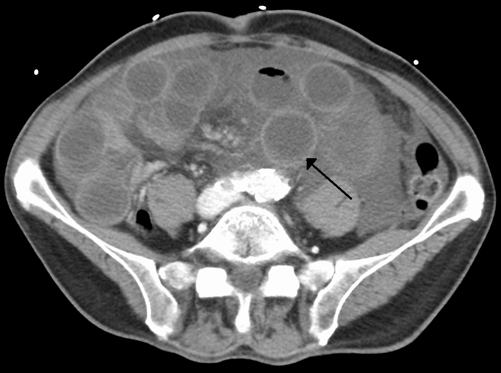 CT of an ischemic bowl due to thrombosis of the superior mesenteric vein. Note the dilated bowel with a thickened bowel wall